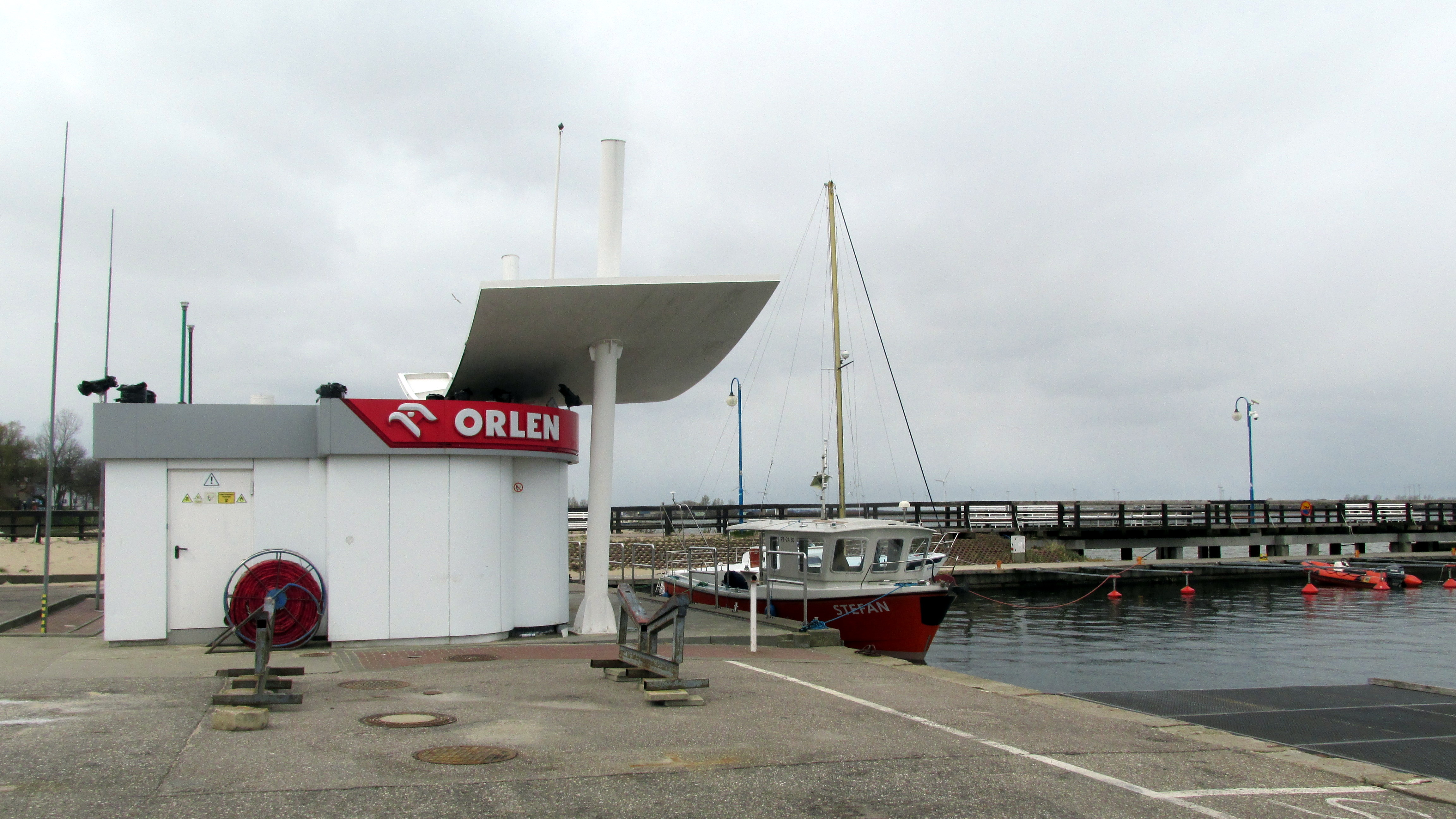 A marine petrol station in Puck, Poland